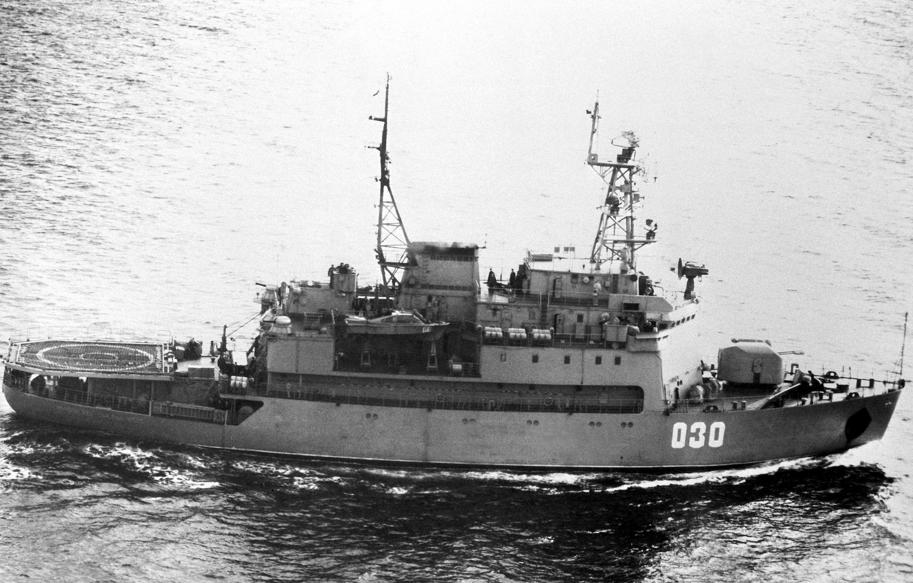 Aerial starboard beam view of Soviet Ivan Susanin class armed icebreaker Imeni XXV sezda KPSS underway.